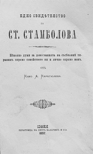 Edno Svidetelstvo